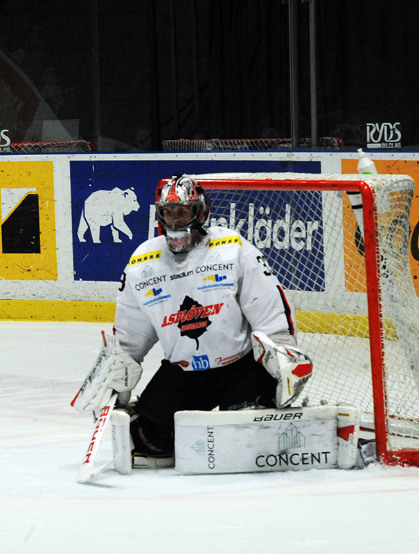 Asplöven HC goaltender Ronan Quemener during a HockeyAllsvenskan game vs. AIK